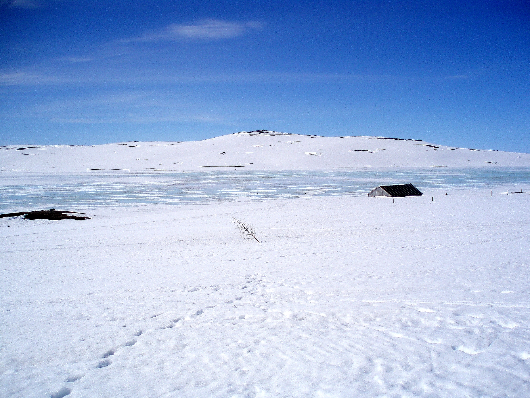 The mountain Store Skrekken on Hardangervidda. The picture is taken near the cottage Rauhelleren in north-east.